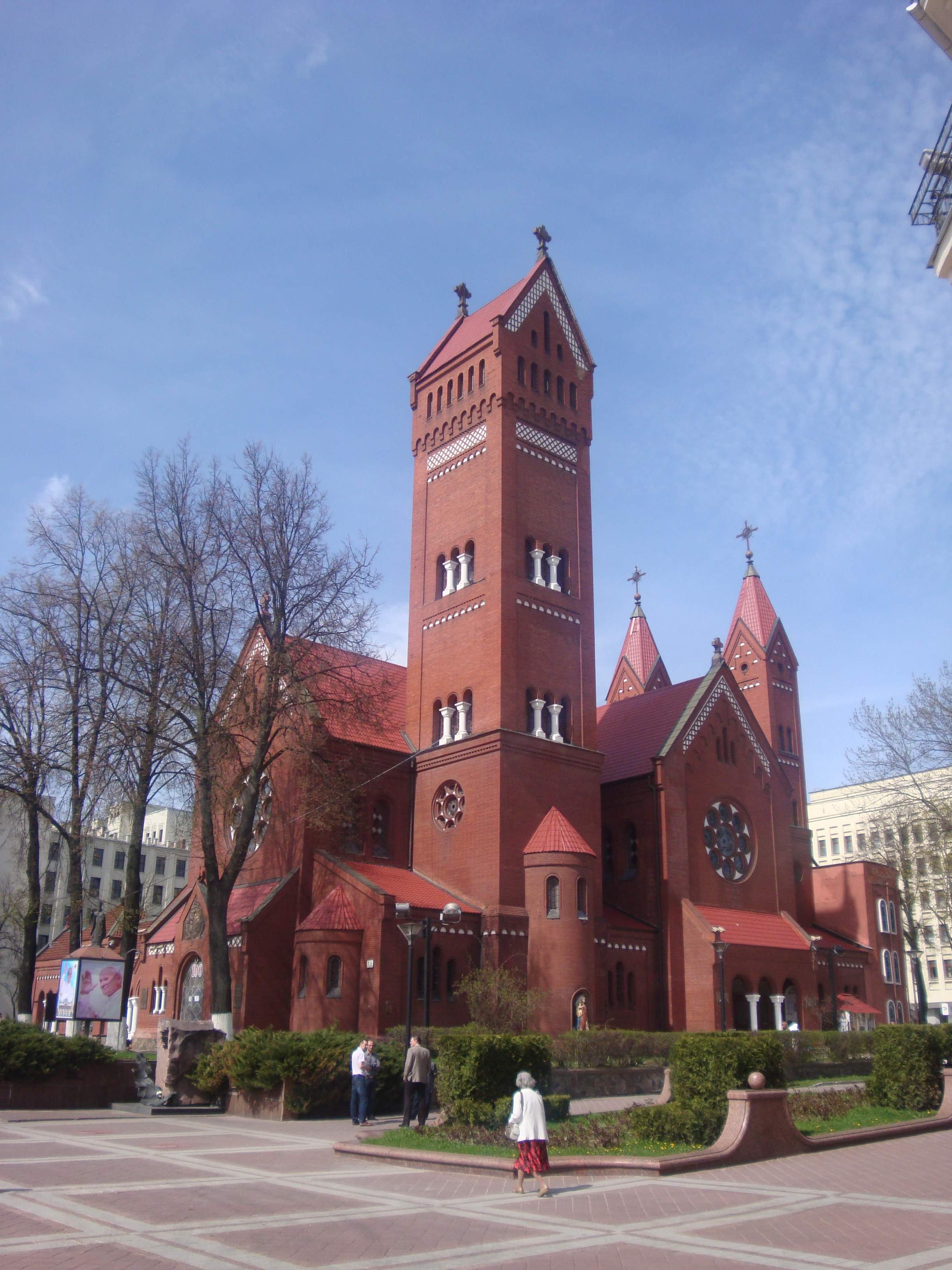 Church of Saints Simon and Helena (Minsk, Belarus)